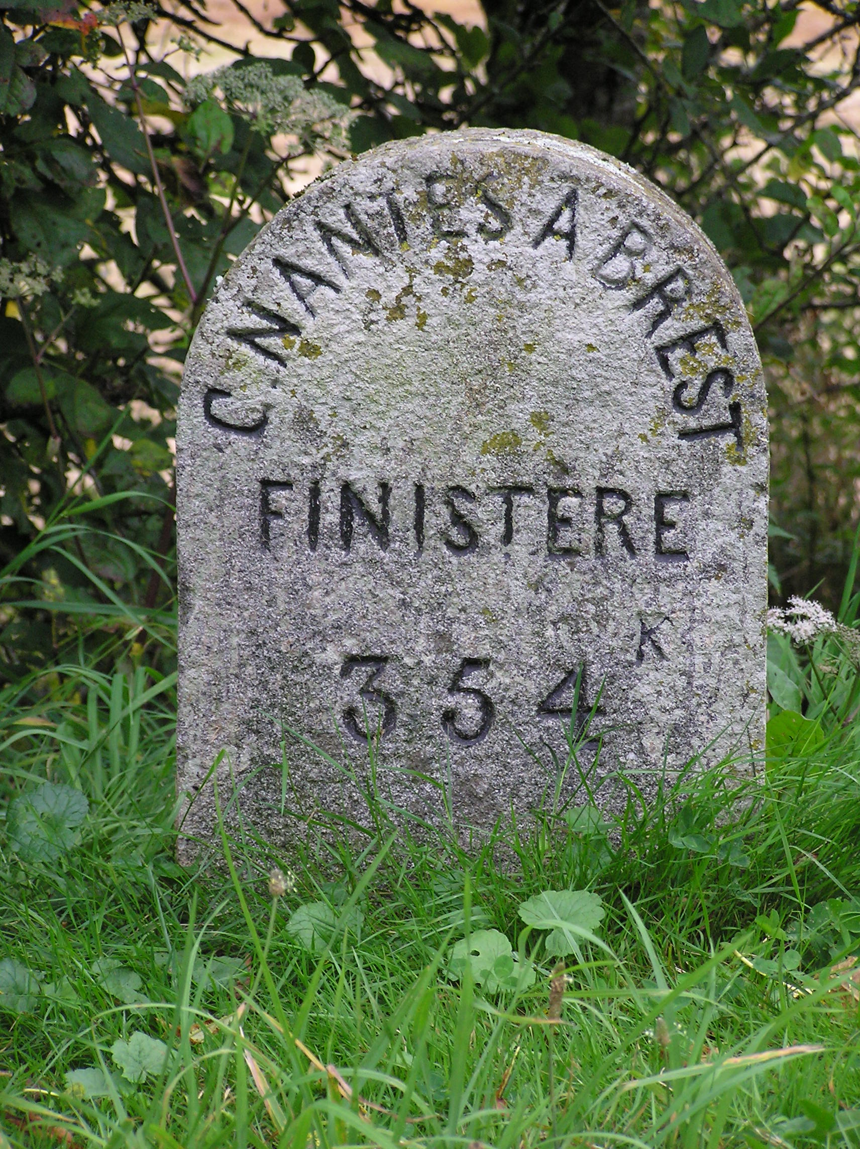 Limit kilometer 354 of the Channel from Nantes to Brest (Finistère)